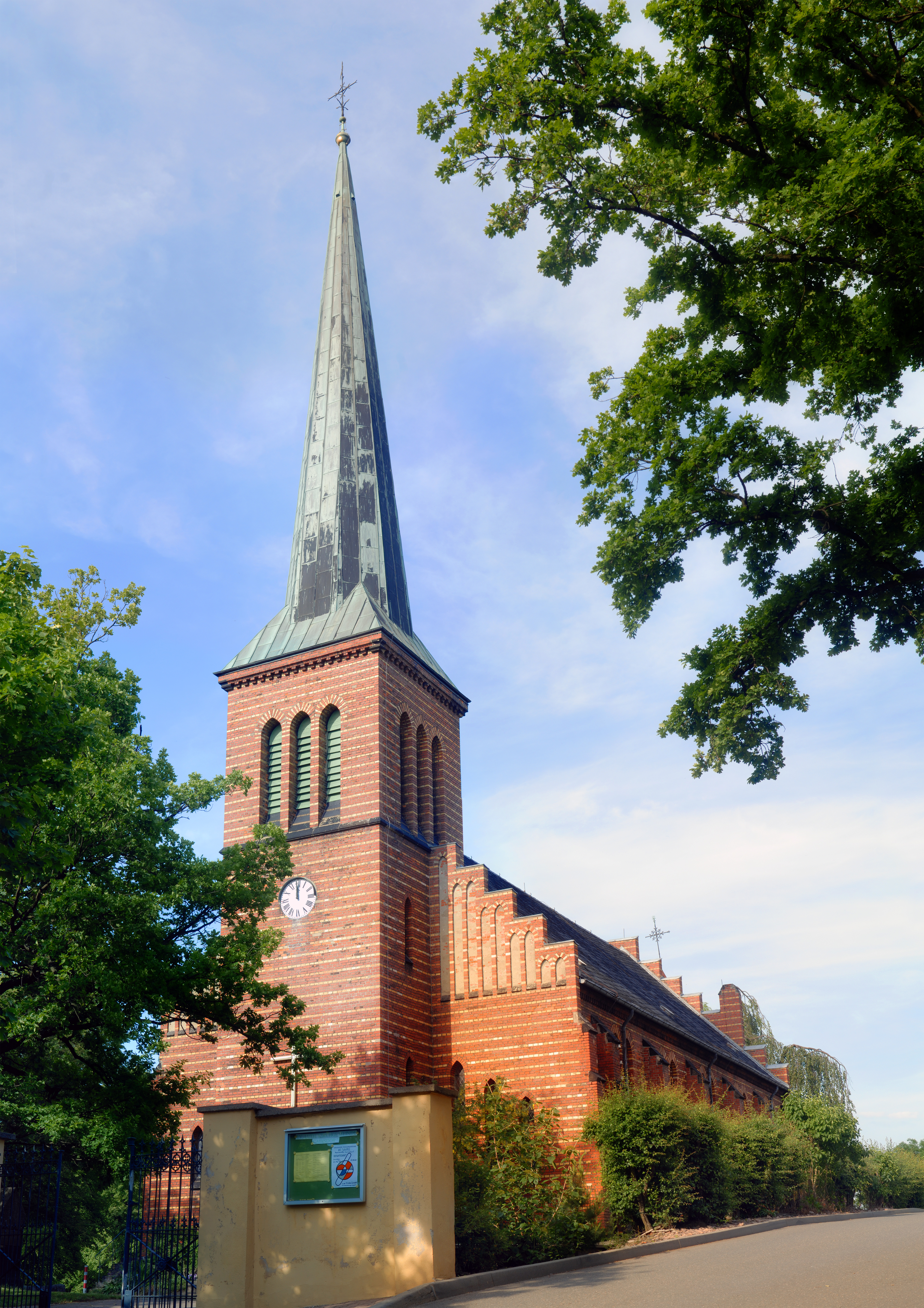 This image shows the church in Zwickau Cainsdorf. It is a eleven segment panoramic image.